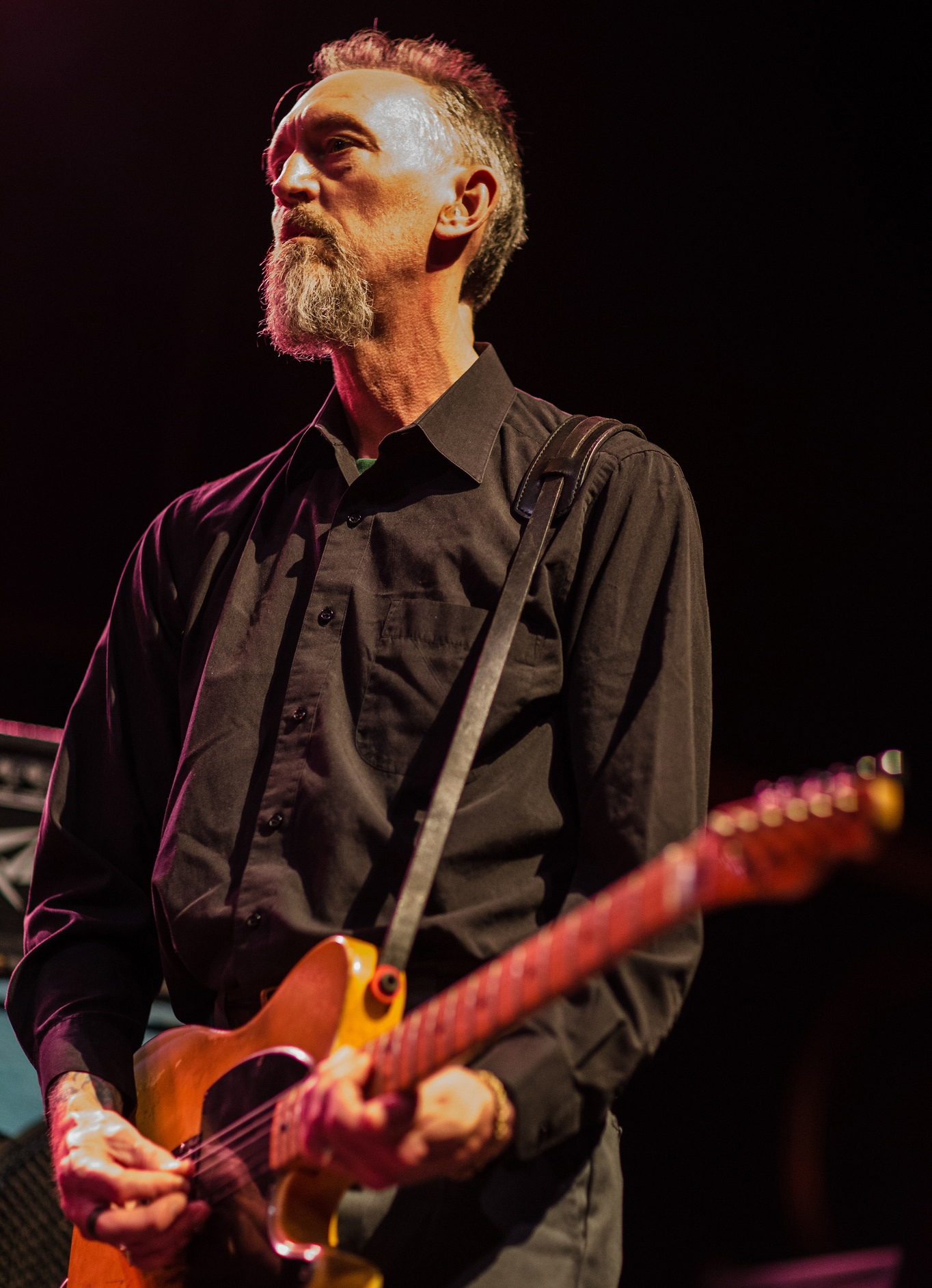 Norman Westberg performing with with Swans in Boston, Massachusetts in 2014.